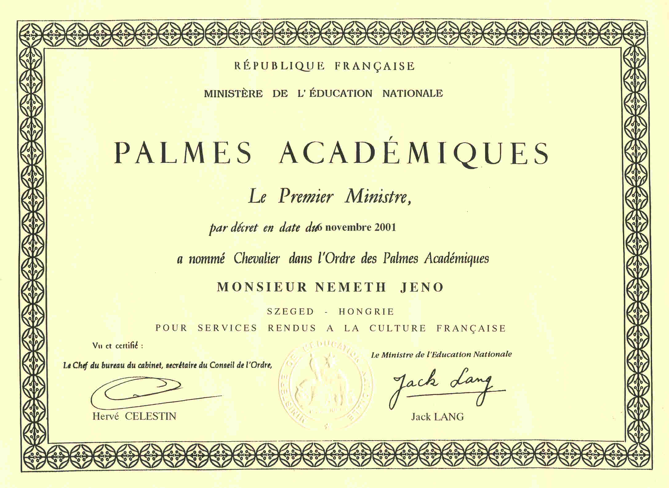 Palmes Académiques for Mr. Nemeth Jeno from France